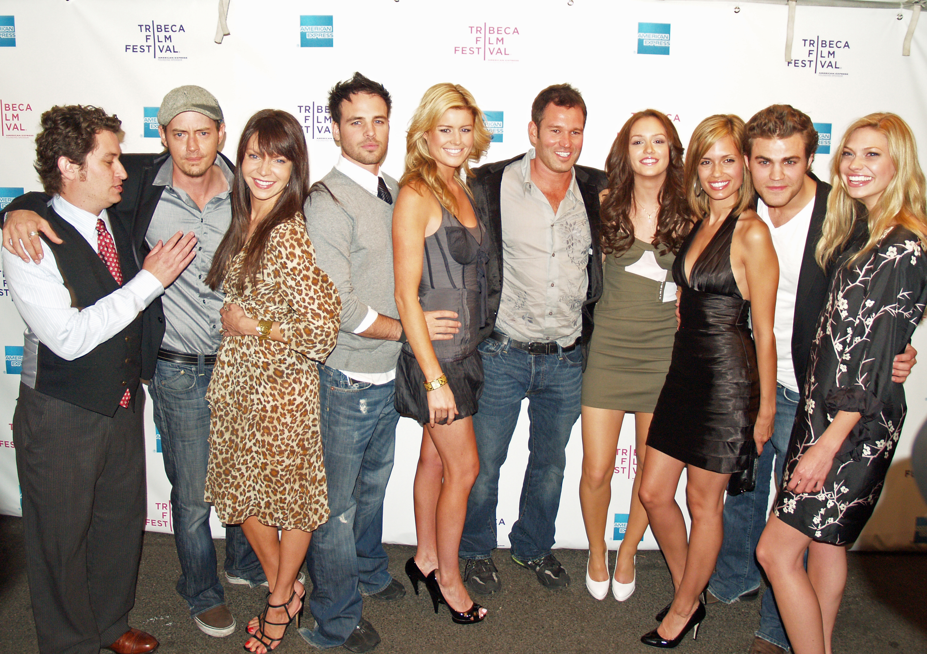 The cast of Killer Movie at the 2008 Tribeca Film Festival.